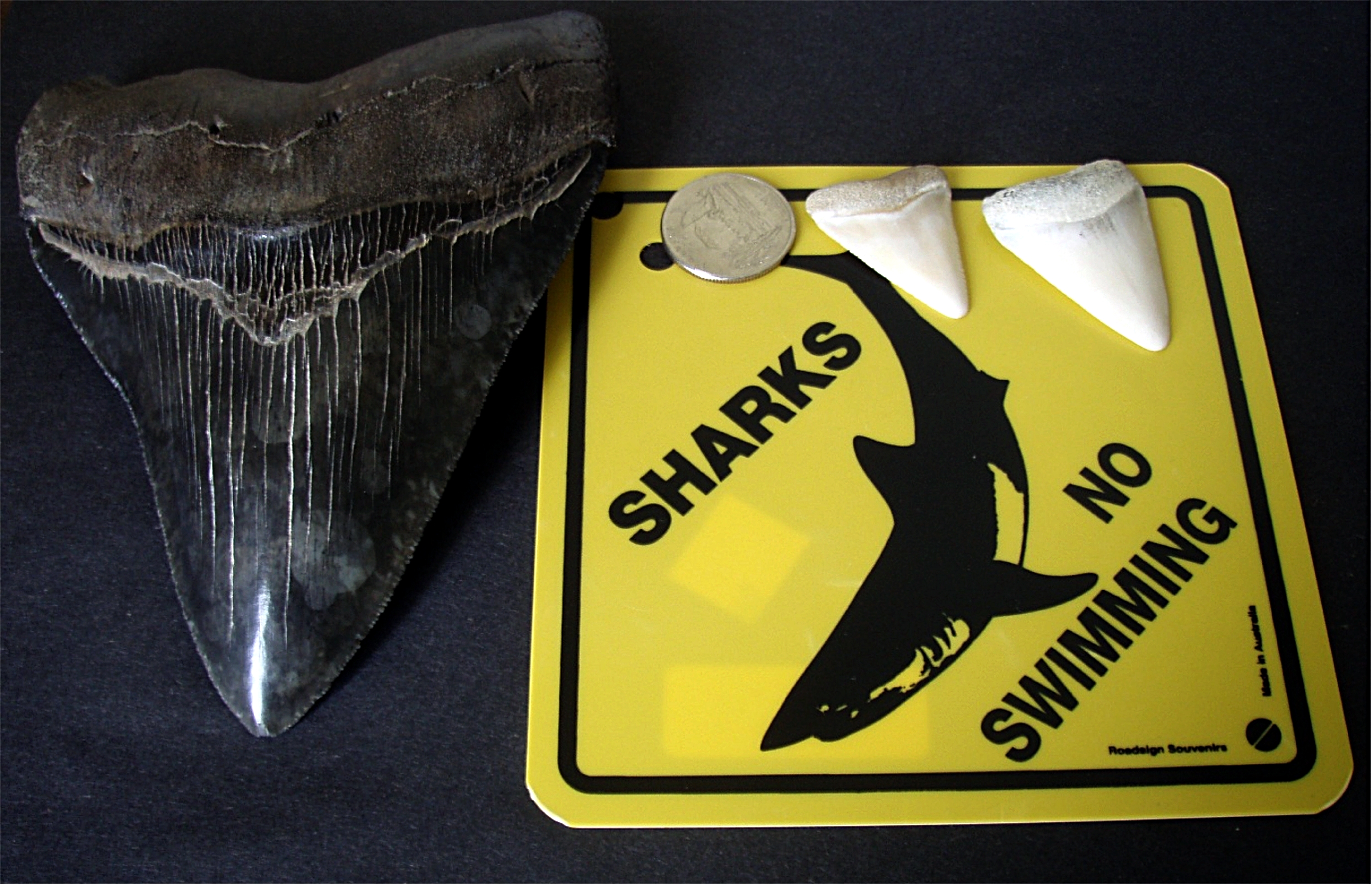 Carcharodon megalodon tooth with two great white shark teeth and with a US 25 cent coin (23 mm in diameter) as a scale object